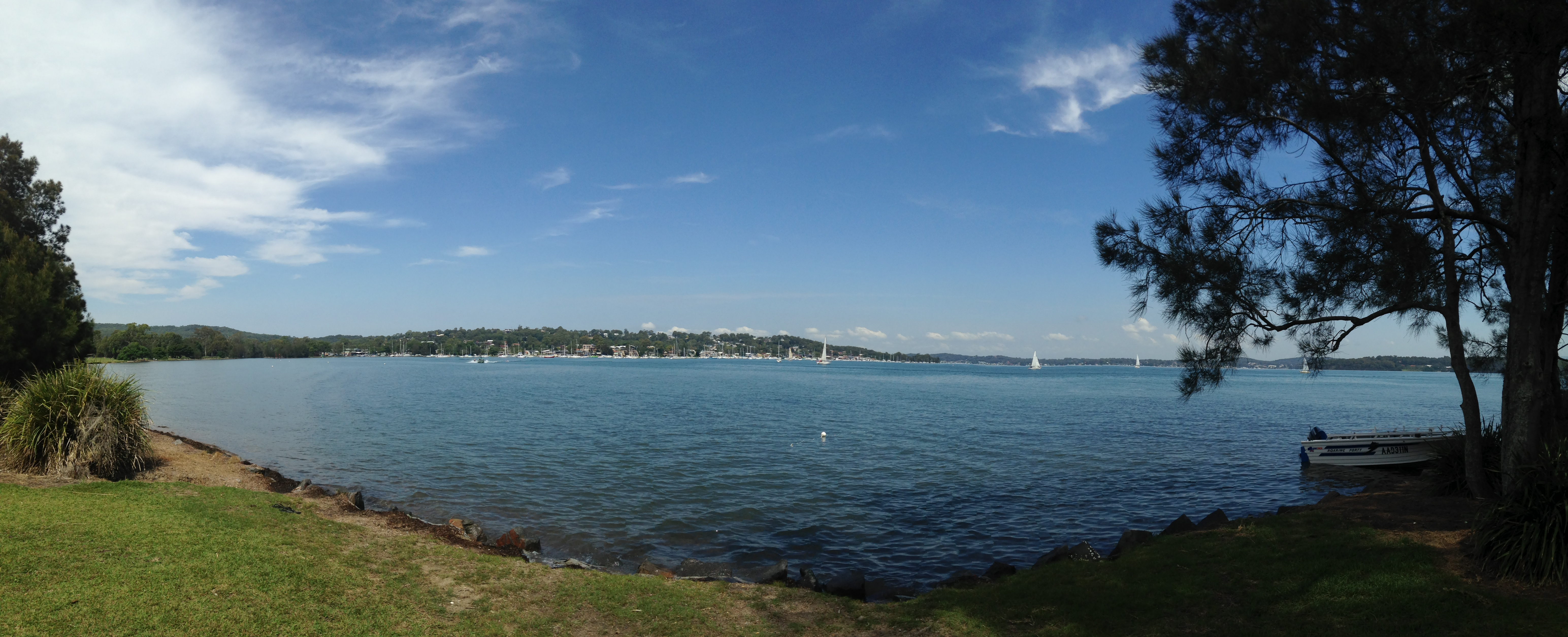 From Croudace Bay, NSW looking towards Valentine, NSW